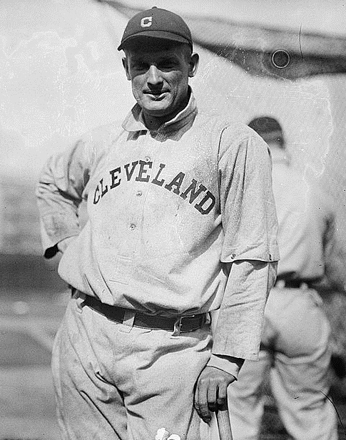 Photograph of Fred Blanding, Cleveland Naps, American League, ca. 1912.